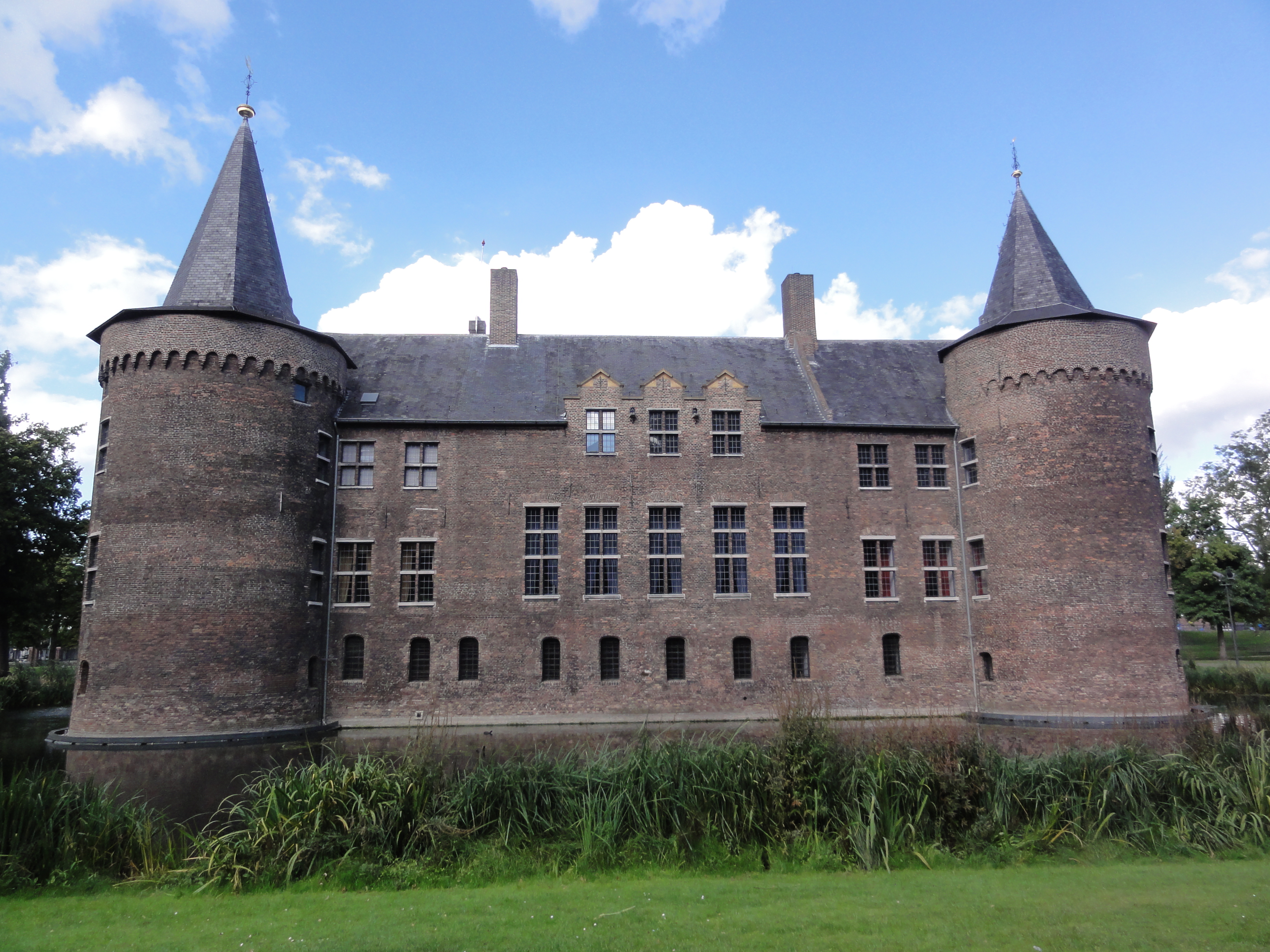 Kasteel Helmond rechtsom rond 06, zuidzijde (achterkant)